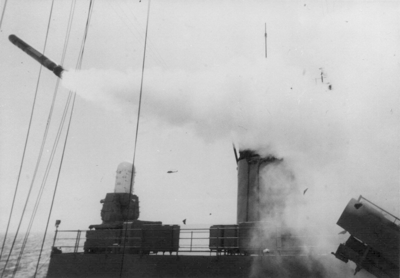 Tomahawk missile launch off the USS New Jersey (BB-62). The New Jersey was the first surface ship to successfully fire the Tomahawk, increasing its offensive capabilities. Department of Defense photo